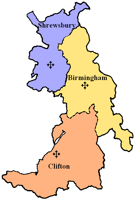 Catholic Province of Birmingham. This is a current map of the ecclesiastical province in the Catholic Church. The crosses mark where the current Cathedrals of each diocese is located. The specific dioceses are in different colours.